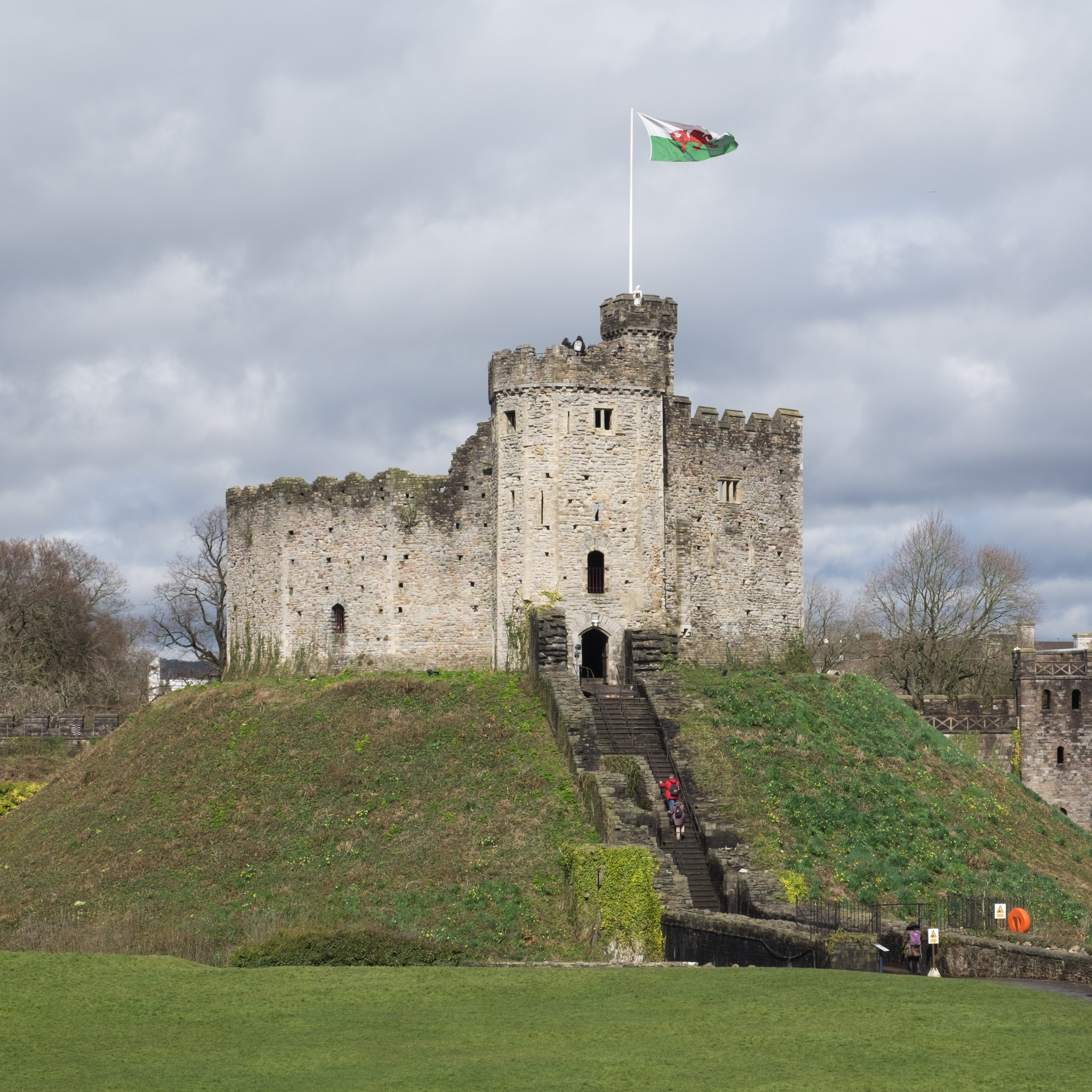 Cardiff Castle keep, Cardiff, Wales. This early 12th century structure, as part of the castle, is a grade I listed building in Wales.